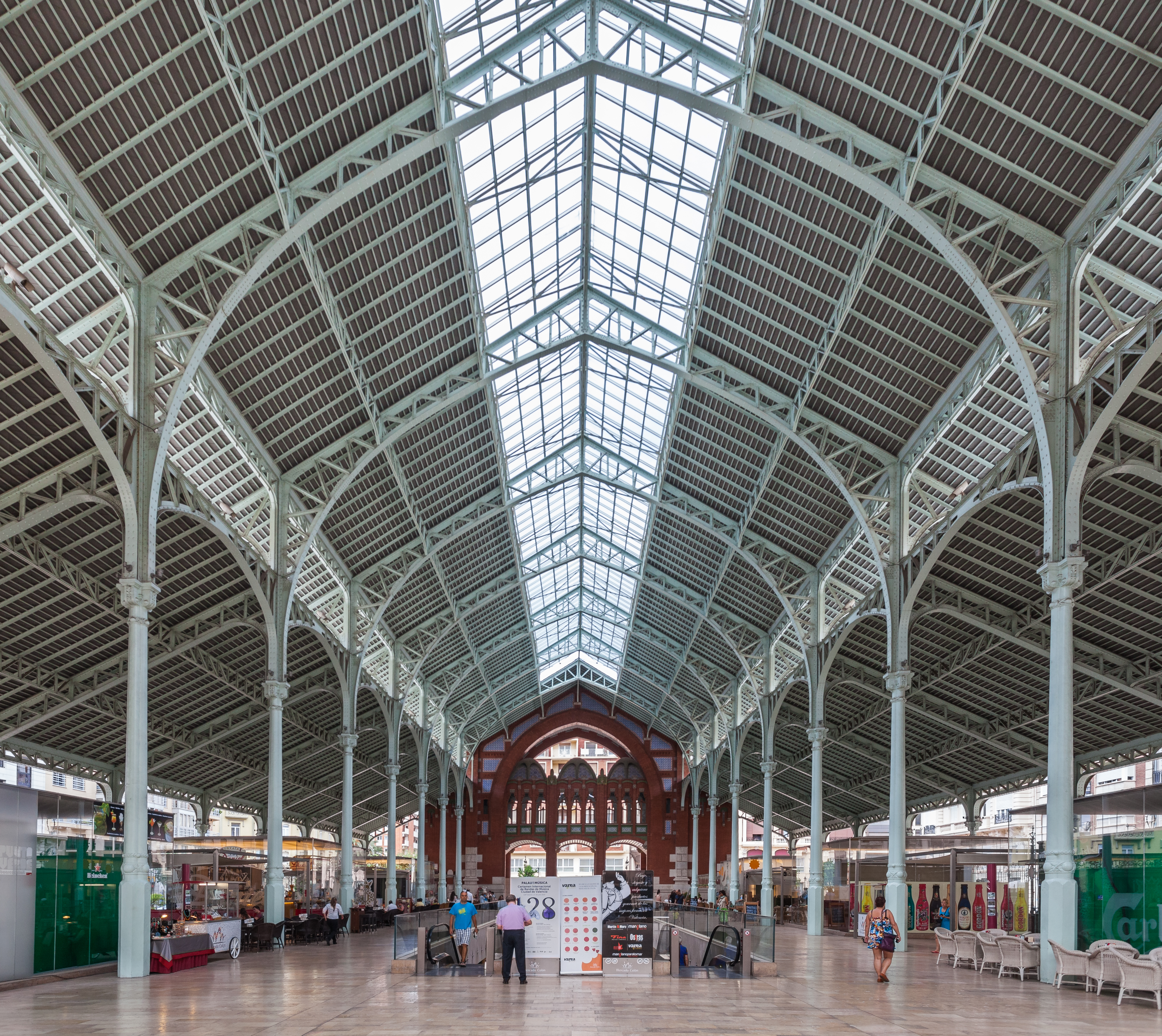 Interior view of the Mercado de Colón ("Columbus Market"), center of Valencia, Spain. The public market, built between 1914 and 1916 is one of the main examples of the Valencian Art Nouveau.